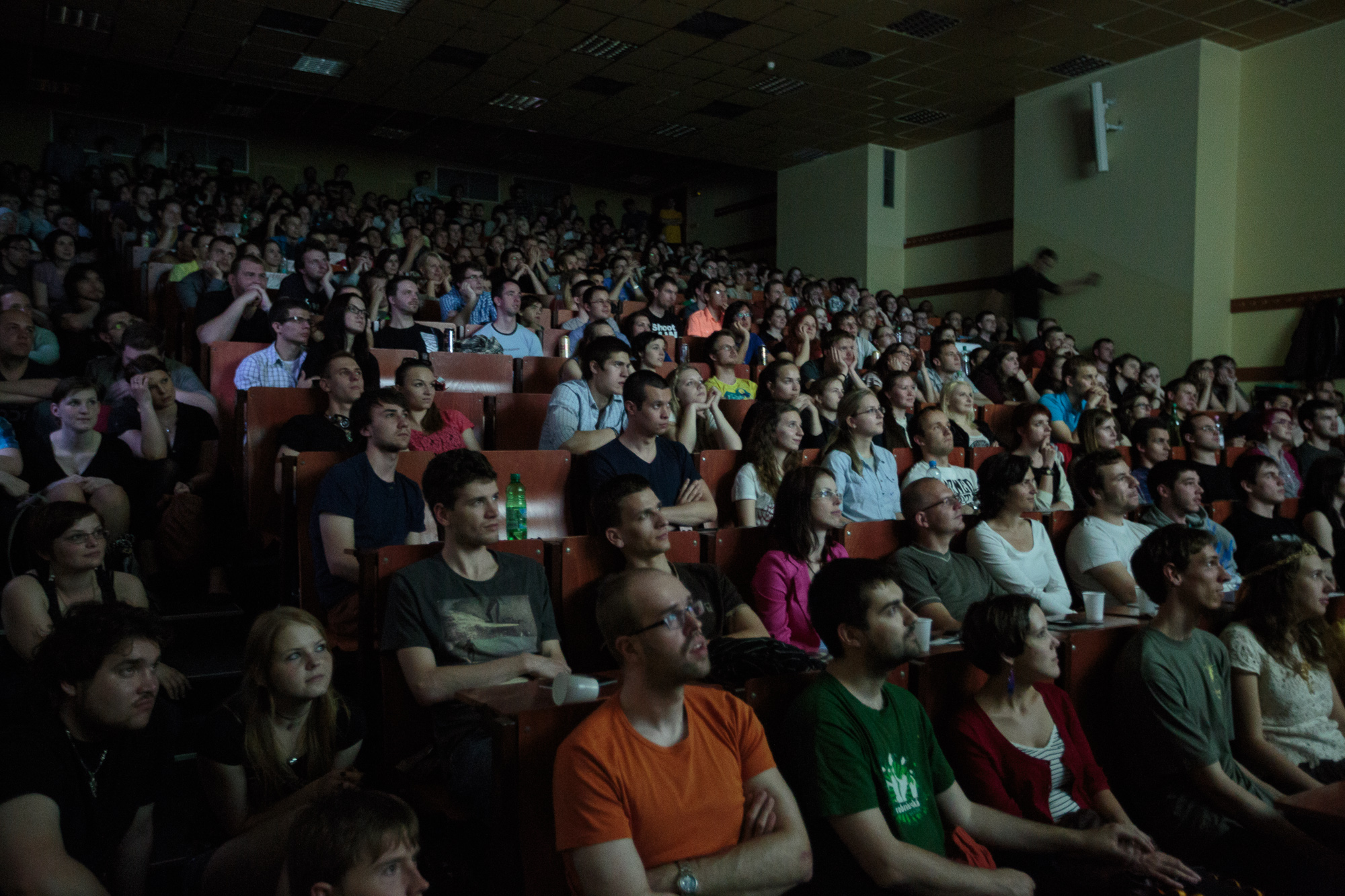 Faculty of Informatics Film Festival, Masaryk University, Brno, Czech RepublicEsperanto: Filmfestivalo de la Fakultato de informadiko, Masaryk-Universitato, Brno, Ĉeĥio